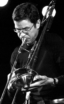 Ray Anderson